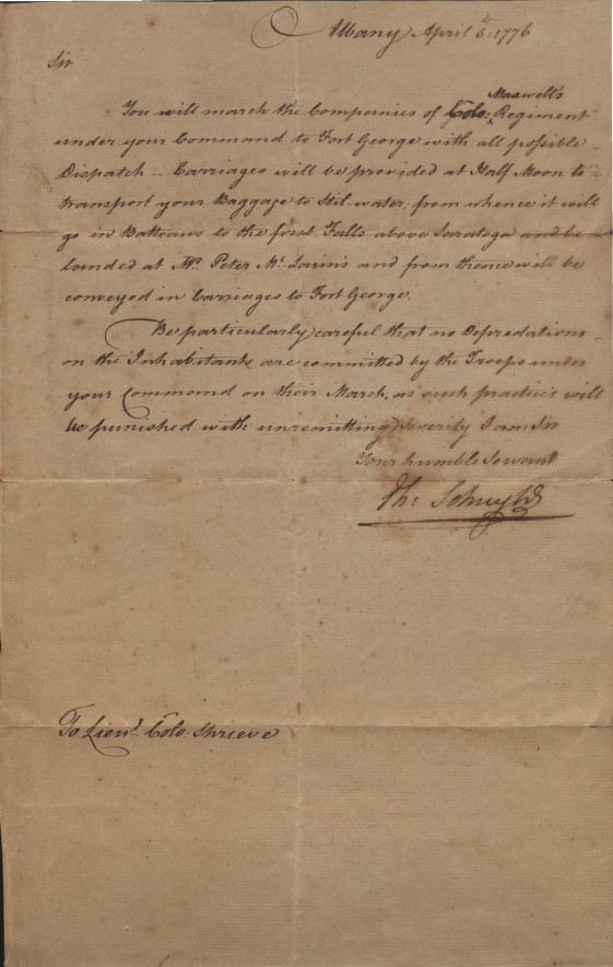 Correspondence from General Philip Schuyler to Shreve on April 5, 1776. Sent from Albany.